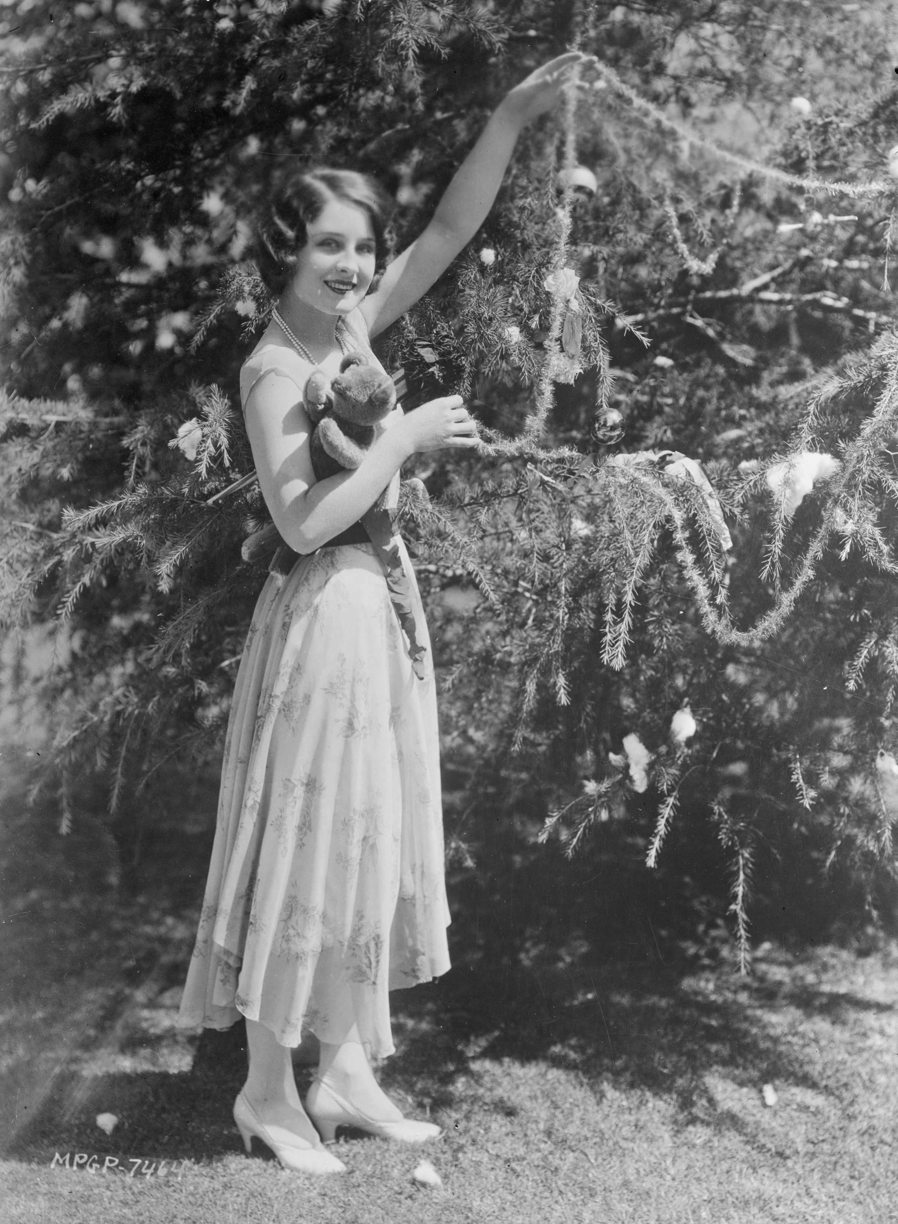 Photograph of Norma Shearer decorating tree.